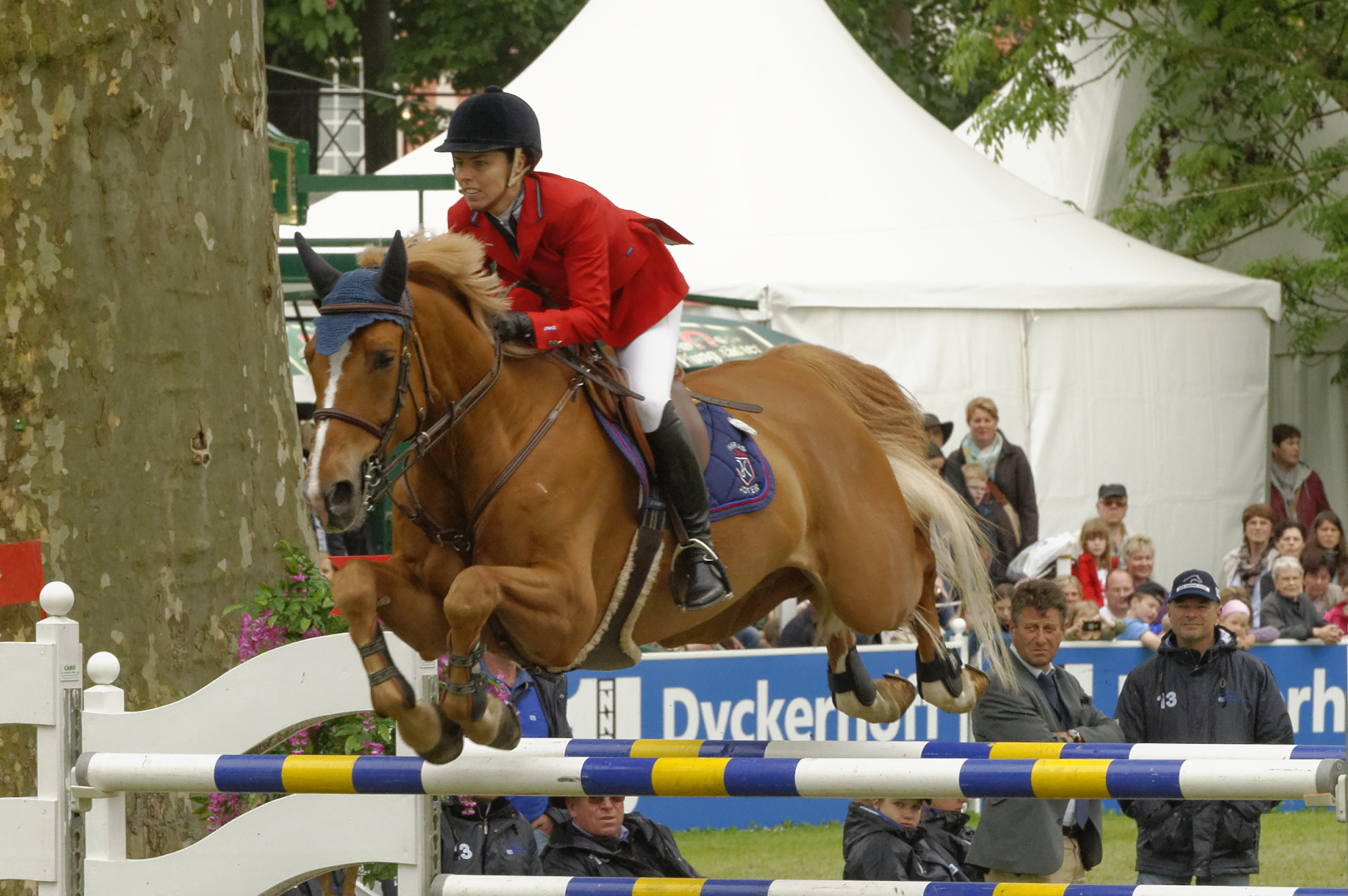 Internationales Pfingstturnier Wiesbaden 2013 The making of this document was supported by the Community-Budget of Wikimedia Germany.